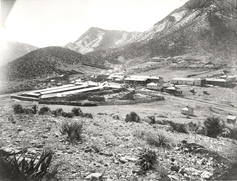 Fort Bowie in Cochise County, Arizona, United States, in 1893.